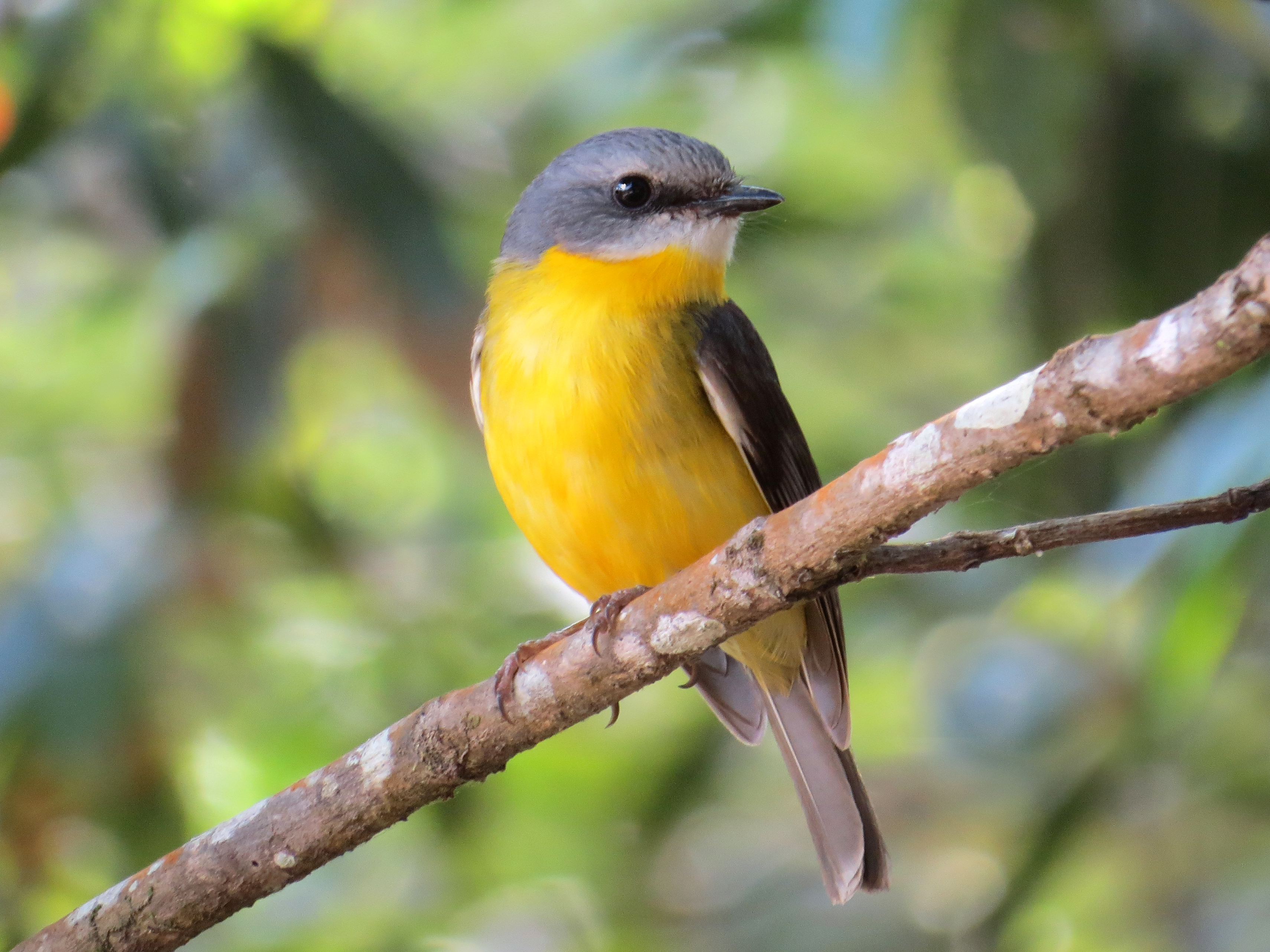 Eastern Yellow Robin at Lake Tinaroo, Queensland.